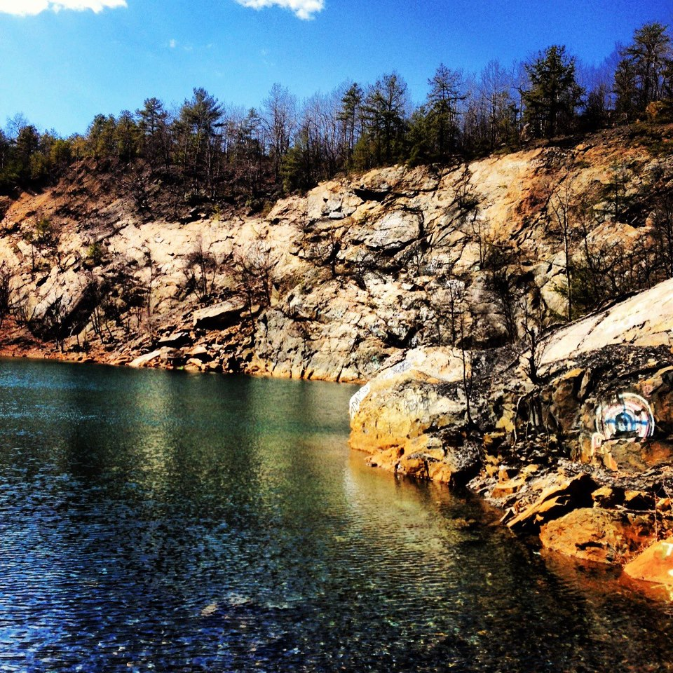 Located on the west side of Shamokin, going toward Trevorton, the Mile collected the most votes in our poll. A very popular swimming spot by day, and party spot by night. It is said that the mile is up to 100 ft deep or more in some areas. At its widest point, it may be about 150 to 200 feet wide. Site of many drownings over the years.